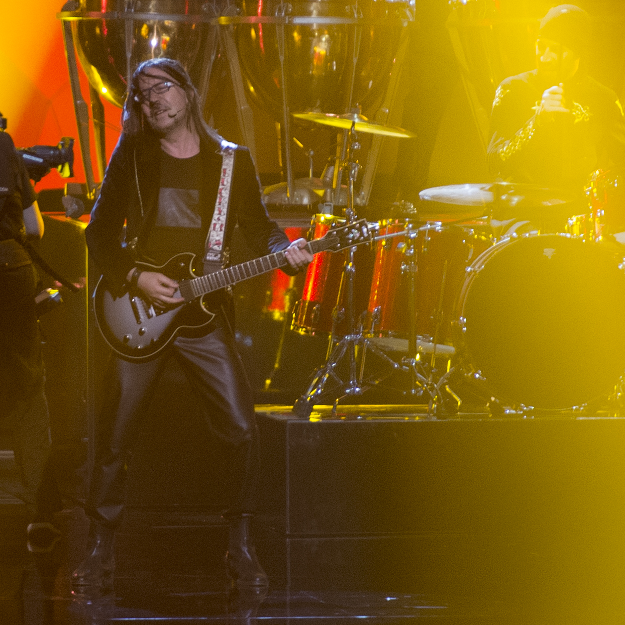 Adrian Lulgjuraj & Bledar Sejko from Albania performing their song in the second dress rehearsal for the second semi final of the Eurovision Song Contest 2013.